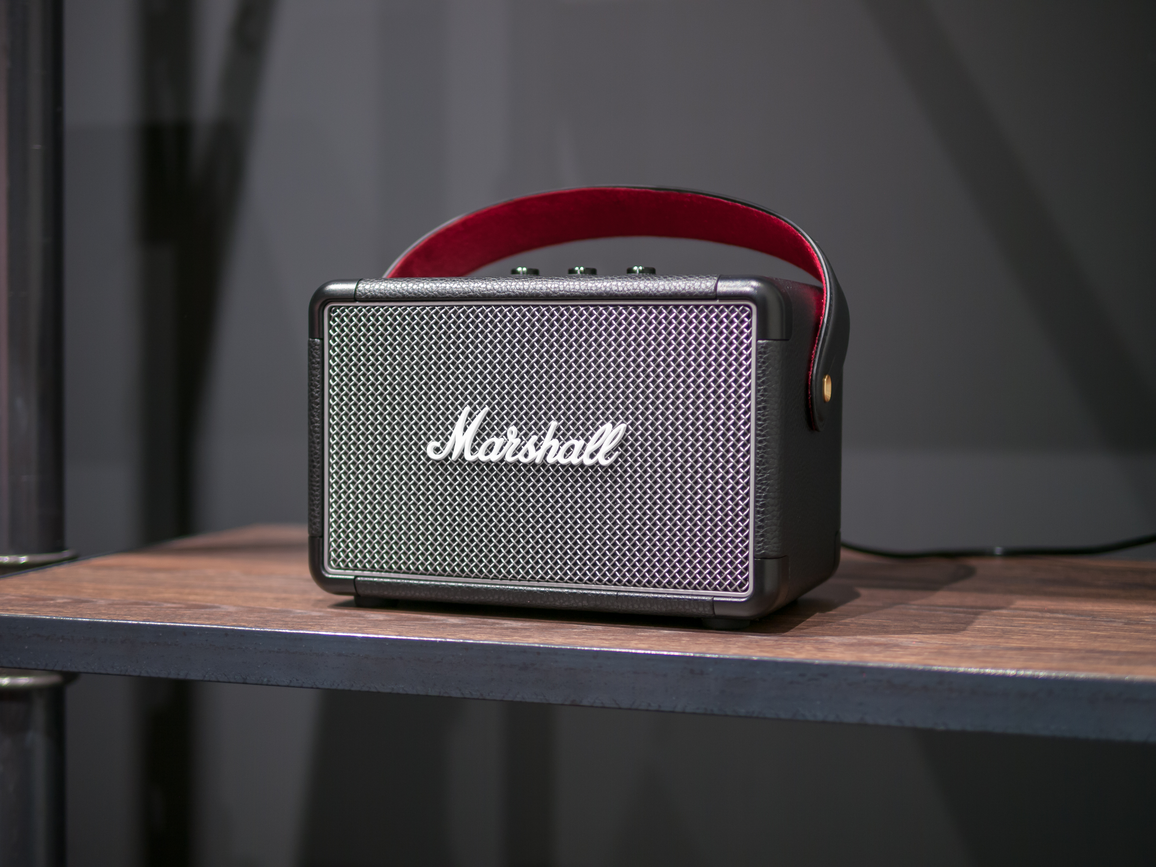 Marshall bluetooth speaker at Internationale Funkausstellung 2018, Berlin